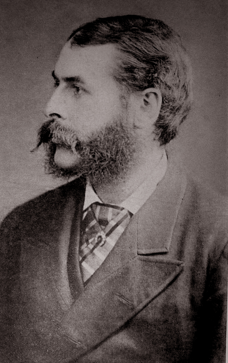 Photograph of Henry John Elwes